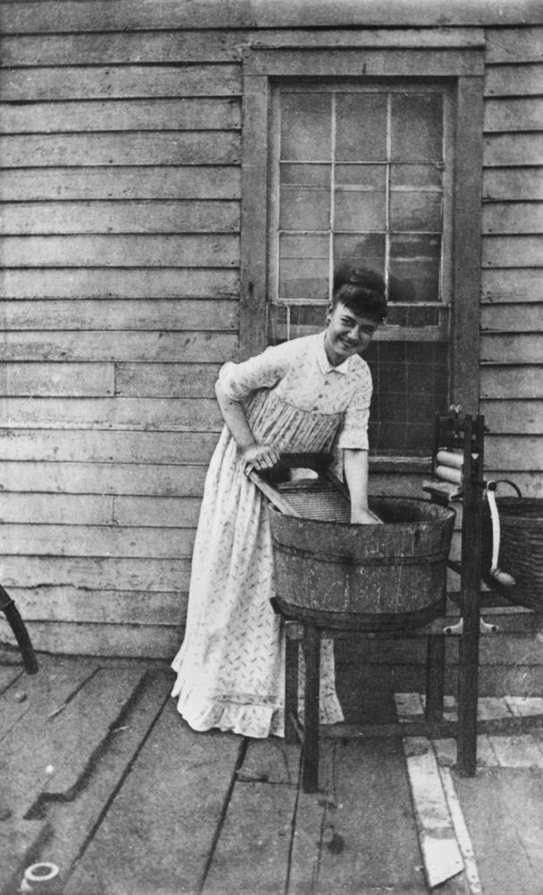 Woman handwashing clothes on the veranda of a house, 1902-1904 Young woman washing clothes by hand in a wooden basin on a washstand with a washboard and wringer.